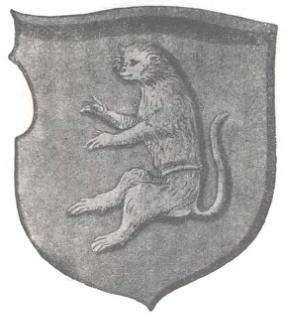 Coat of arms Kot Morski from Stemmata Polonica by Helena Polaczkówna y